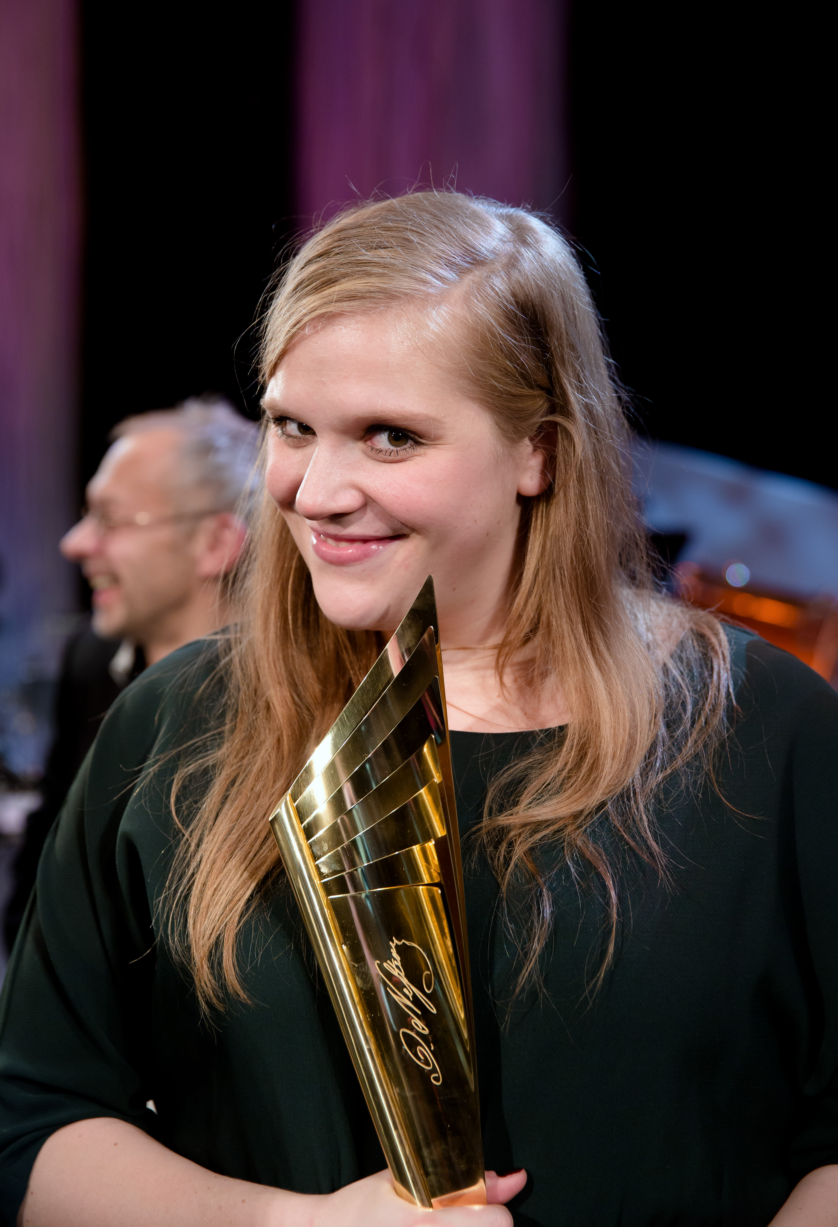 Stefanie Reinsperger at the Nestroy Theatre Awards 2015 (Ronacher, Vienna, Austria).